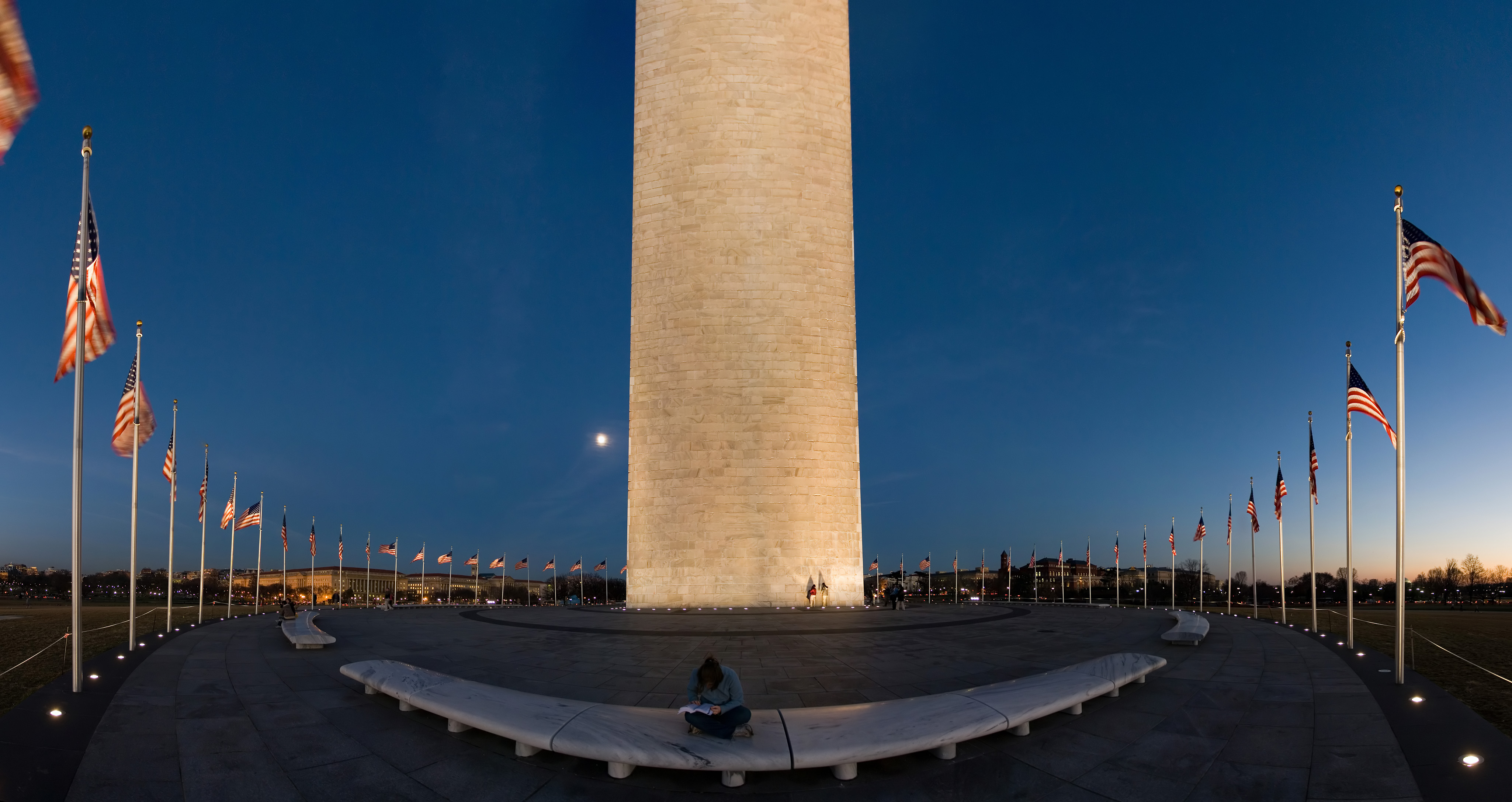 A panorama of Washington Monument and its flags, showing some visitors. Taken by myself on January 12th, 2006.